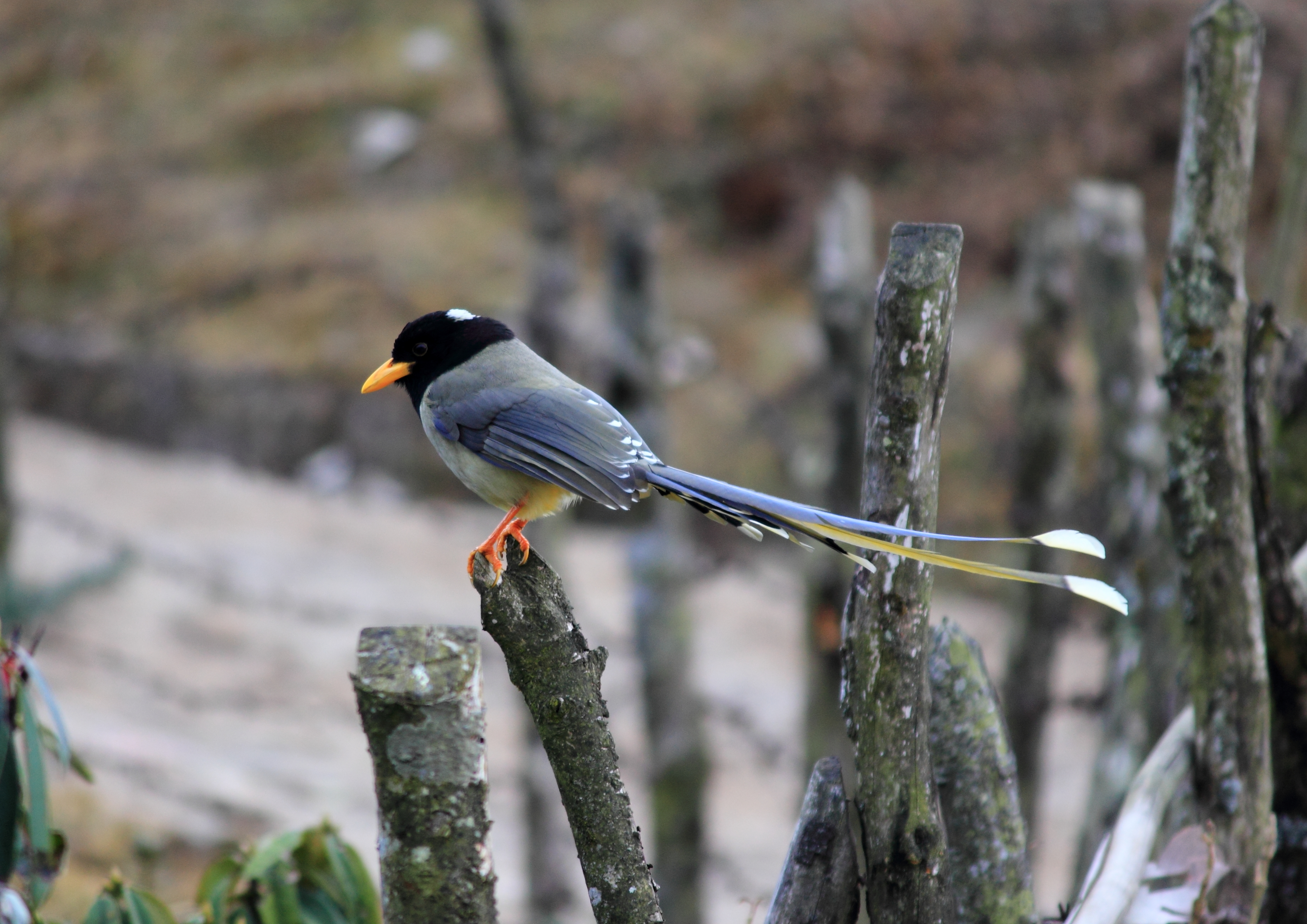 Yellow-billed Blue Magpie found near Sandakphu, West Bengal, India